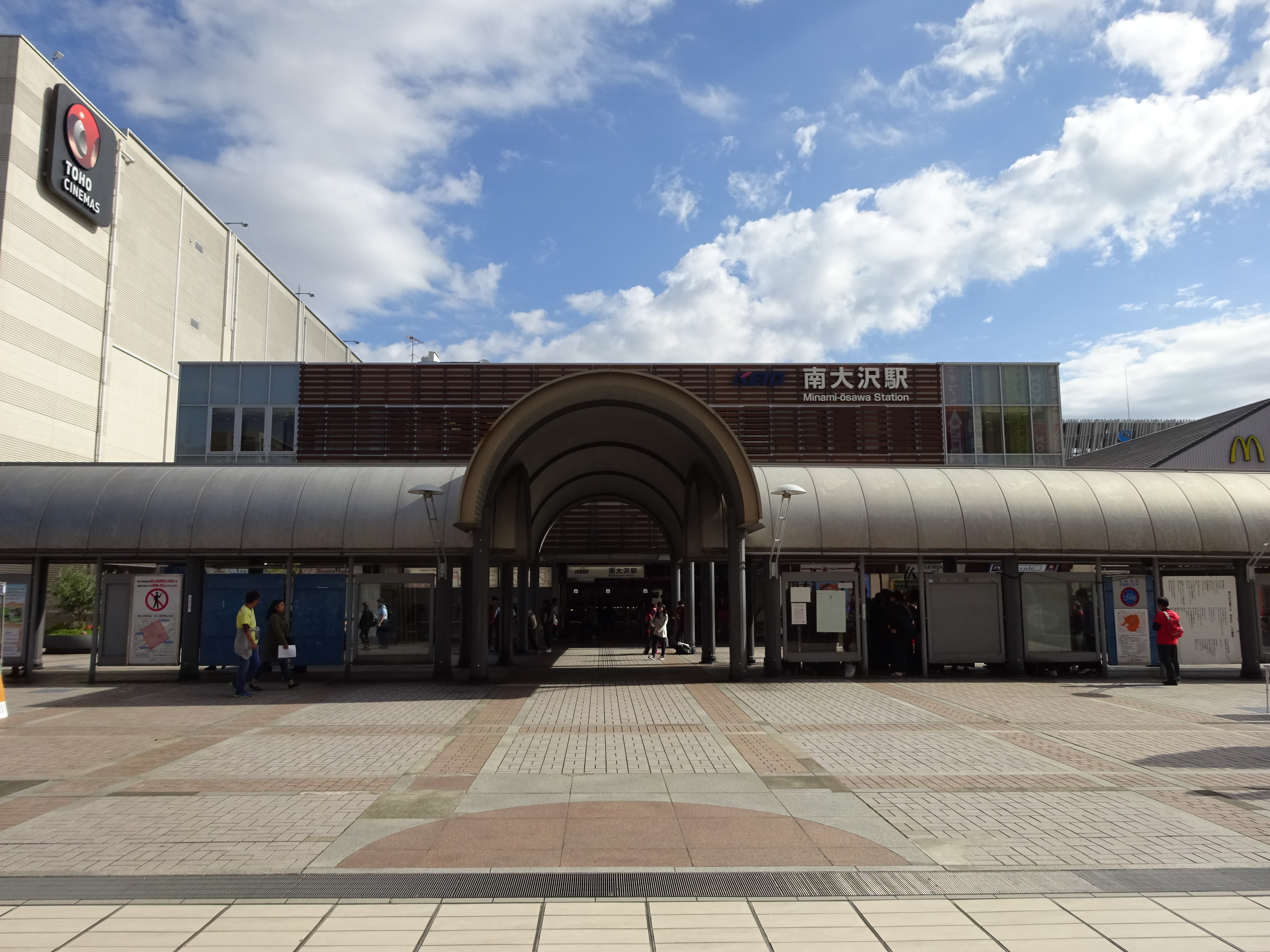 Minami-ōsawa Station